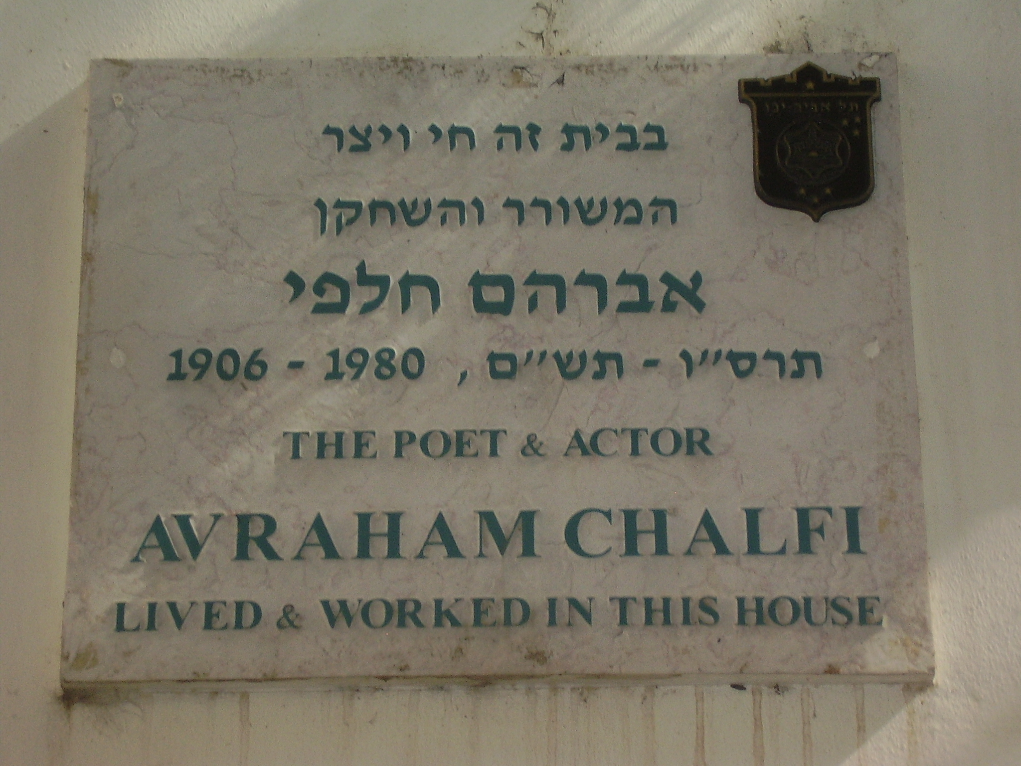 memorial plate on the house of the poet & actor avraham chalfi in tel aviv לוחית זיכרון על ביתו של המשורר והשחקן אברהם חלפי ברח' ישראלס 10 בתל אביב